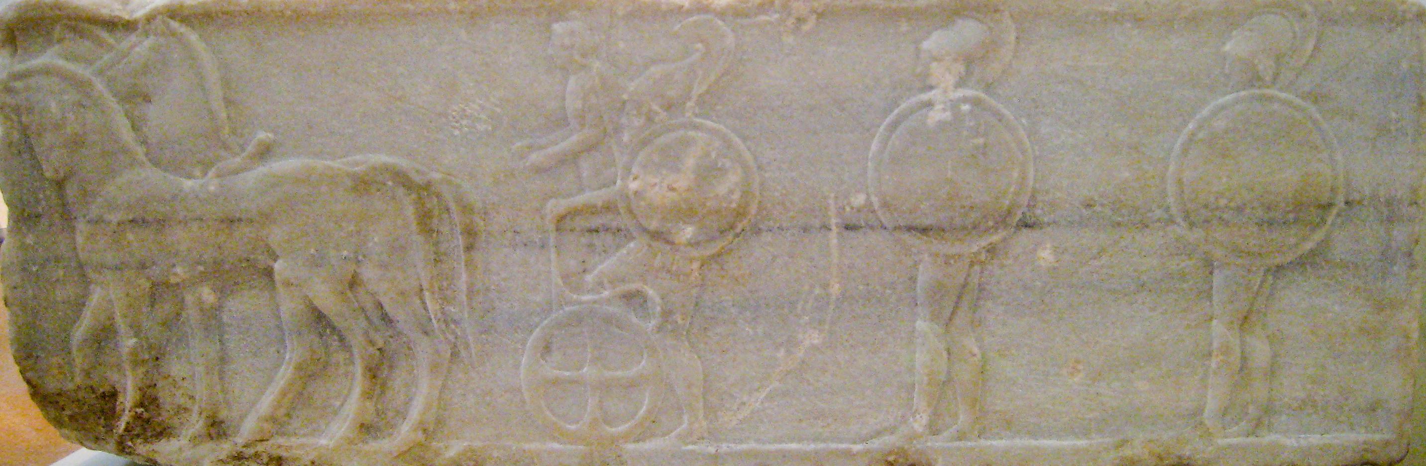 Base for funerary kouros, marble. Athens, Kerameikos, built into Themistokleian wall. 510-500 BC